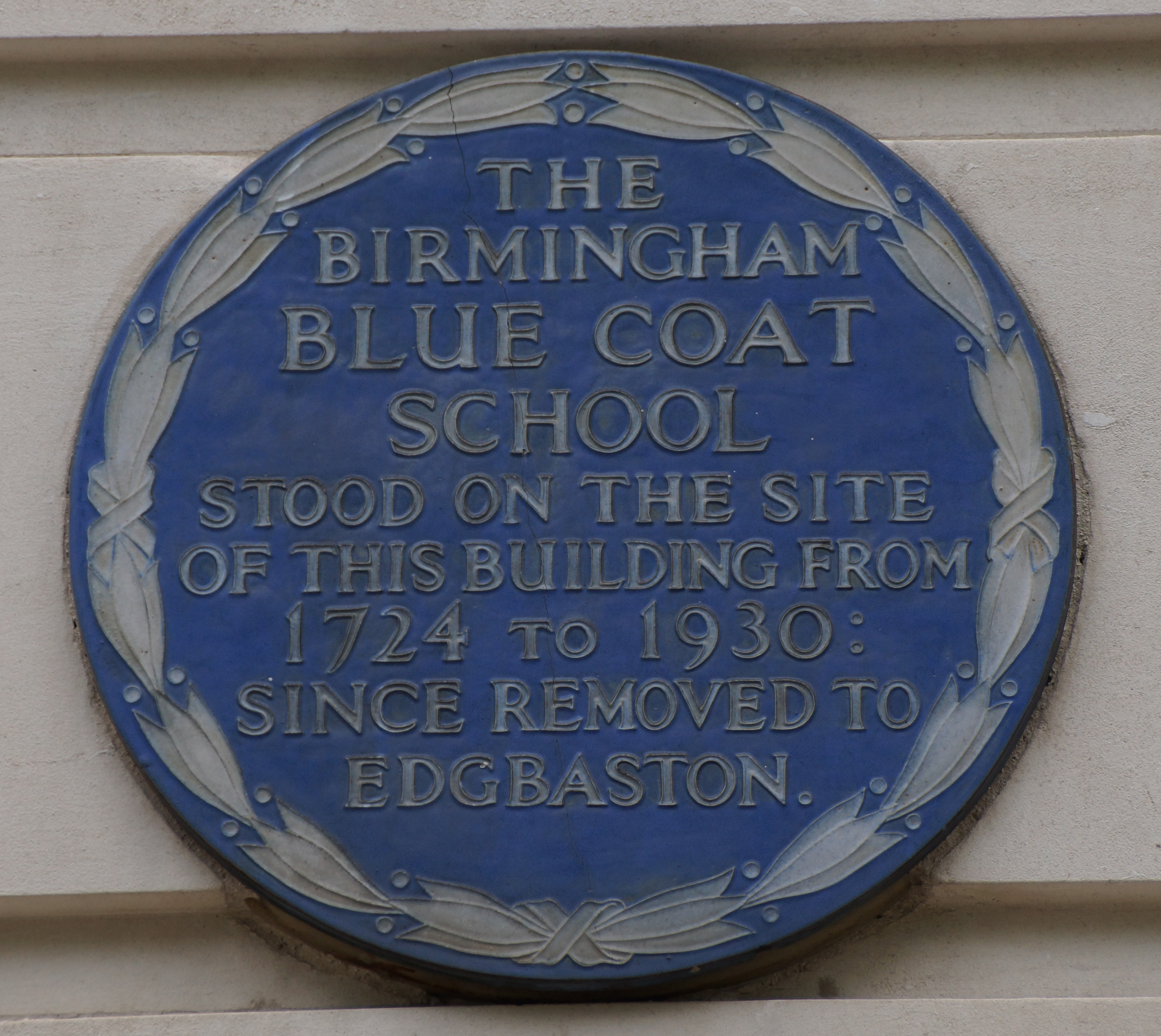 Blue plaque for the Blue Coat School, Birmingham, England. It is mounted on a building on the site of the original Blue Coat School on the north side of St Philip's Cathedral churchyard.